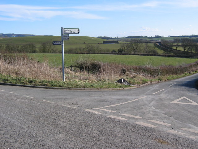 South of Leppington. View south from the road junction which is near the north edge of the grid square.